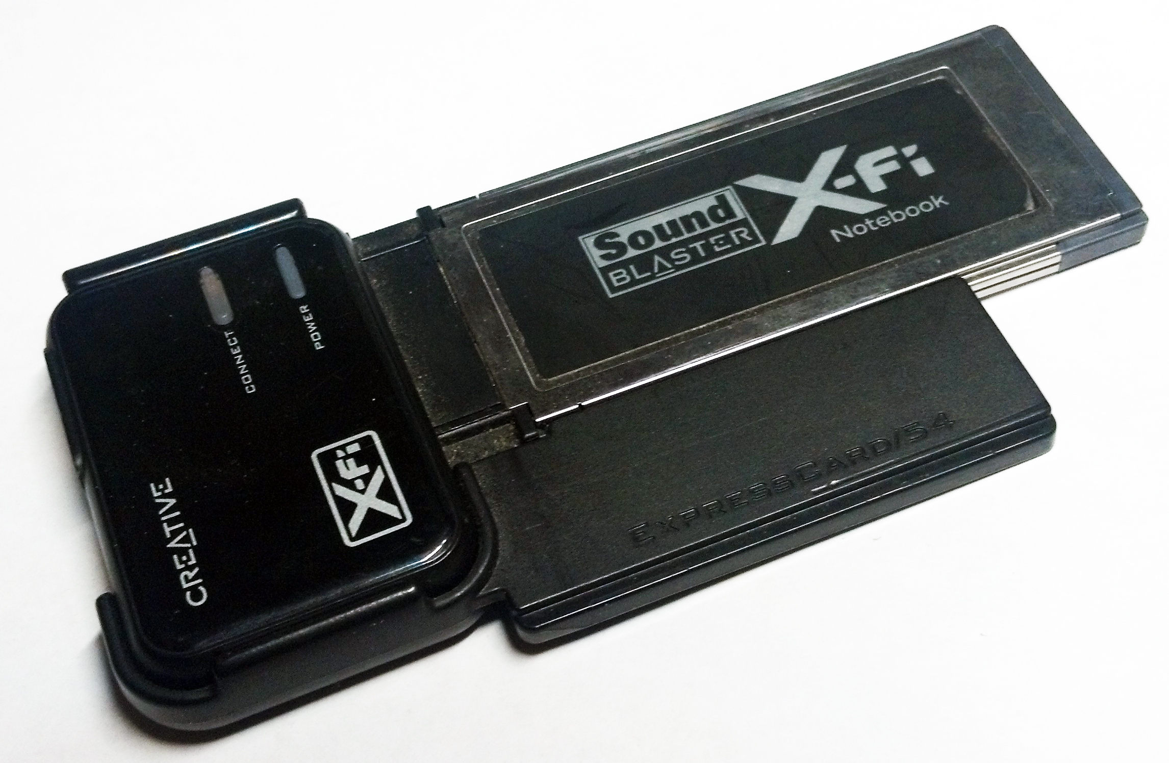 Creative Labs 70SB095000004 ExpressCard Sound Blaster X-Fi for Notebooks